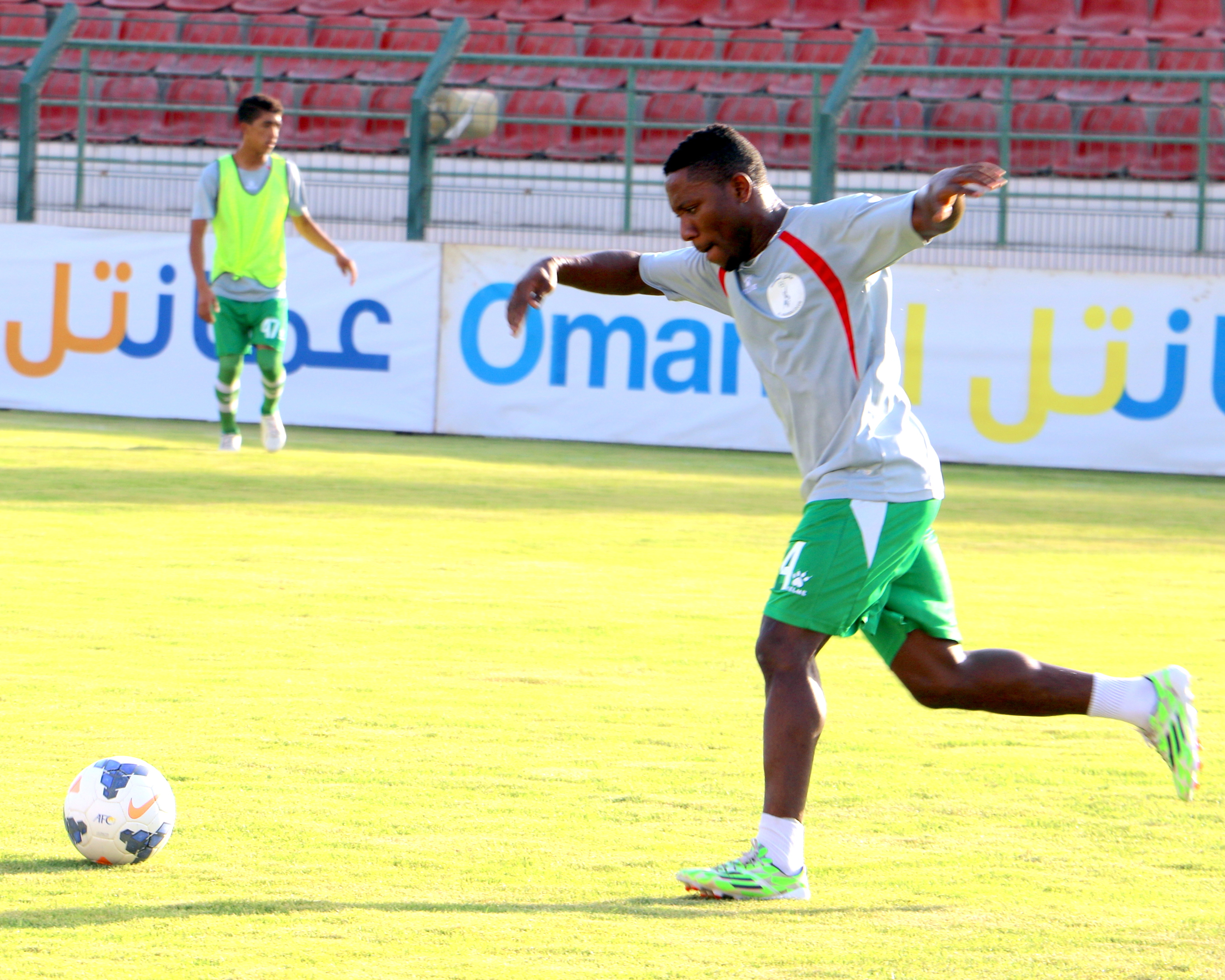 Daniel Odafin with Al Nahda Club training before a match against Dhofar Club. Al Saada Stadium 28 May 2015 Photographer email id